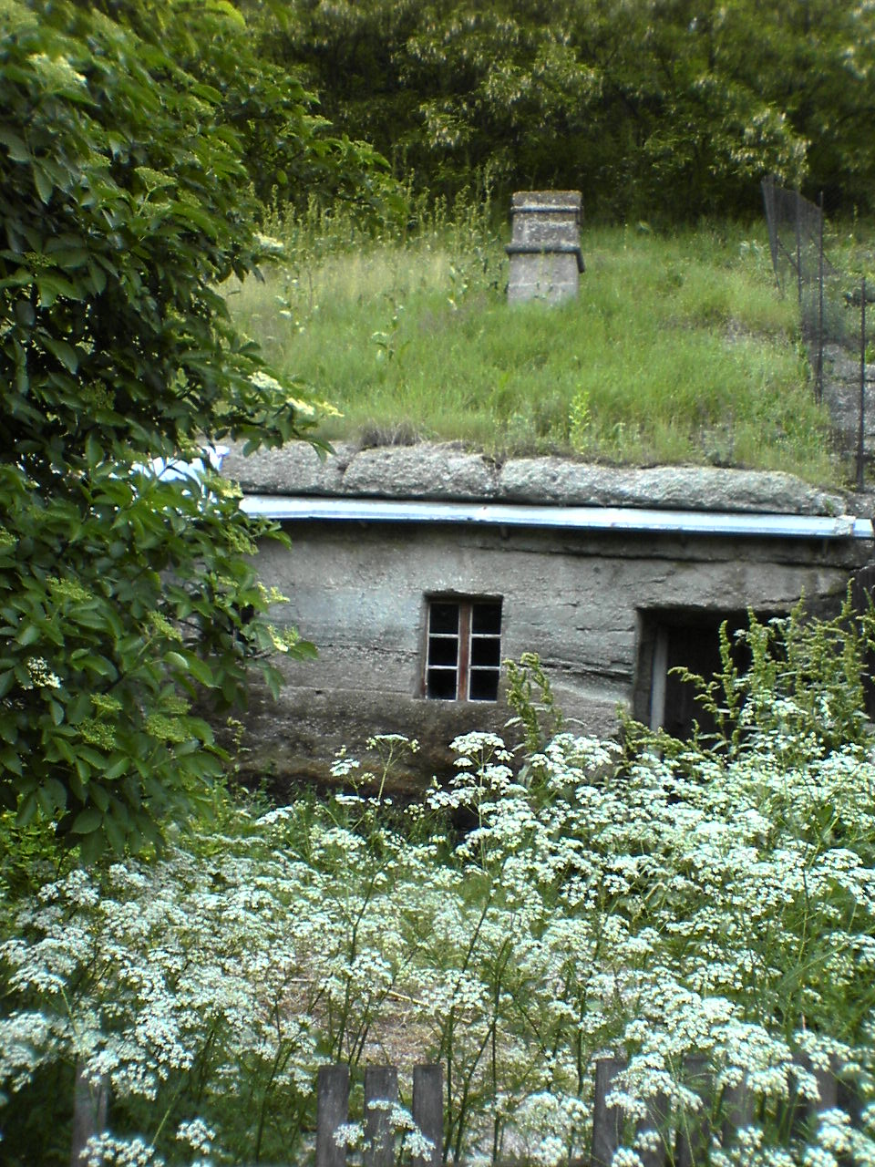 Typical dwelling in Brhlovce